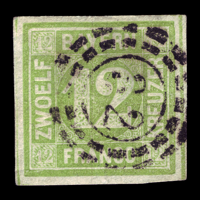 Second series of stamps of Bavaria with postmark of a open millwheel 32 Bamberg Graphics by Haseney Ausgabepreis: 12 Kreuzer First Day of Issue / Erstausgabetag: 1. Oktober 1862 Michel-Katalog-Nr: 12 (Altdeutschland (Bayern))